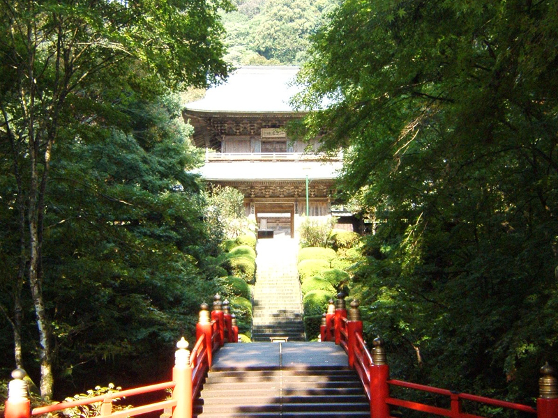 Ungan-ji Temple entrance. Ōtawara, Tochigi, Japan.